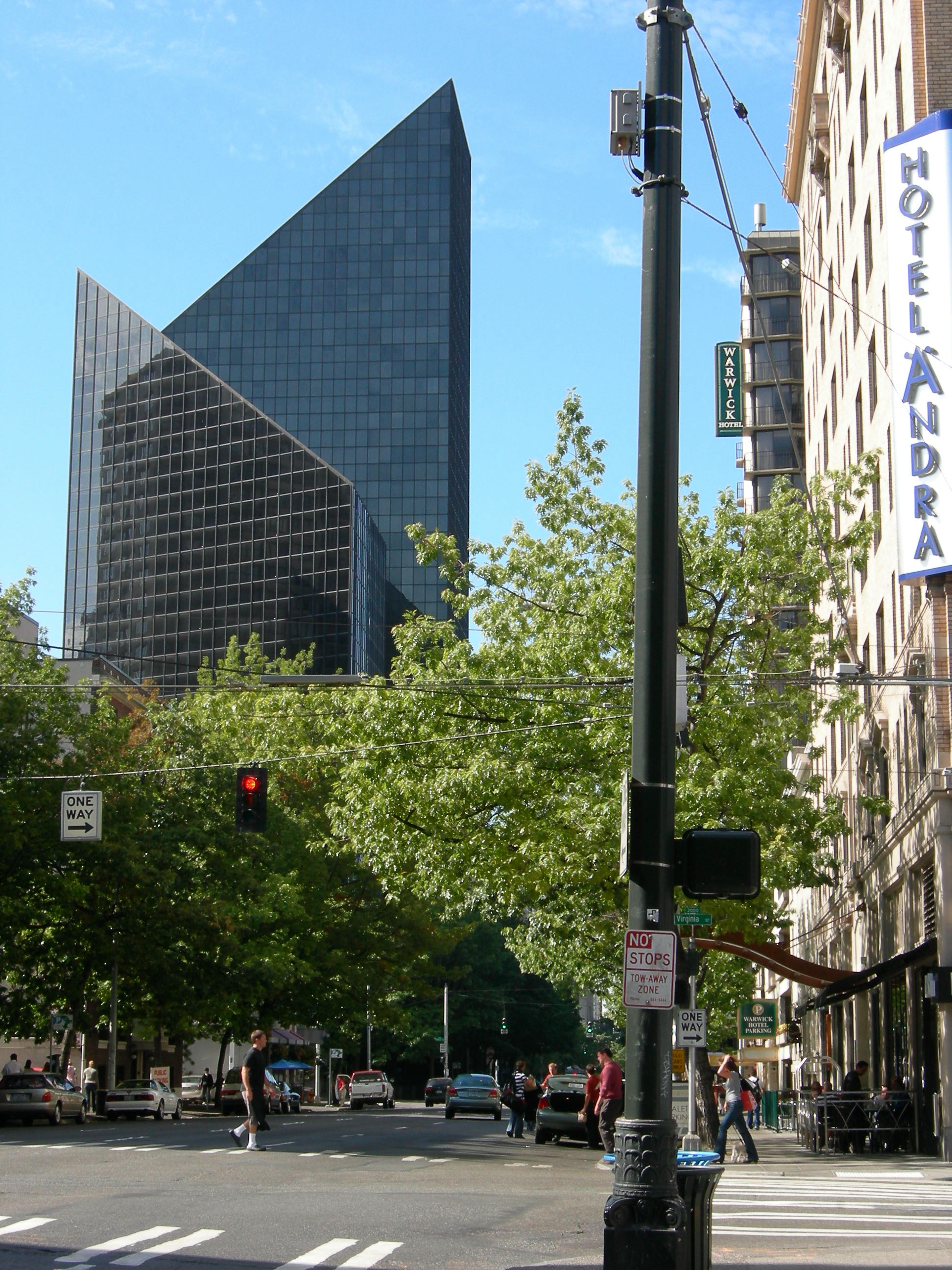 Looking north from the corner of Fourth and Virginia in Downtown Seattle. The Fourth and Blanchard Building, at left, is known to locals as "the Darth Vader Building" because its color and the slope of its roof evoke Vader's helmet.